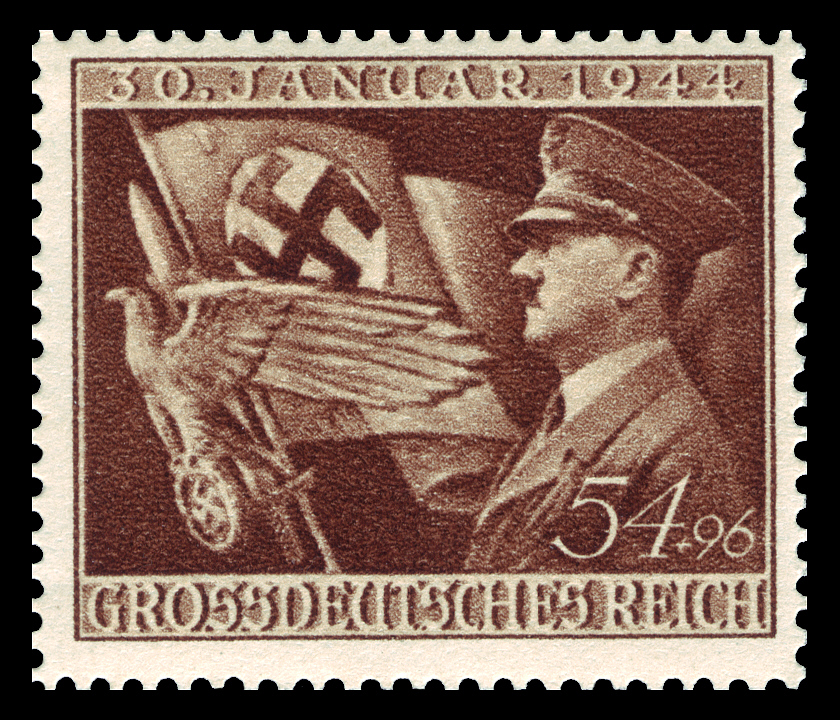 11th anniversary of the takeover by Hitler Graphics by G. Klein Ausgabepreis: 54+96 Pfennig First Day of Issue / Erstausgabetag: 29. Januar 1944 Michel-Katalog-Nr: 865 (Deutsches Reich)